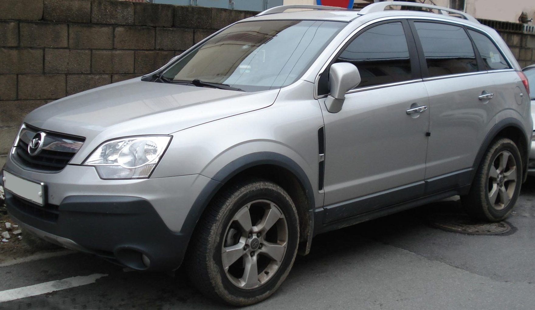 Daewoo Winstorm Maxx